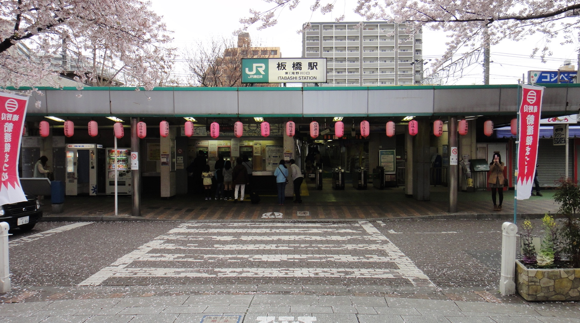 East (Takinogawa) entrance of Itabashi Station on the JR Saikyo Line in Tokyo, Japan